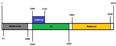 Mapa genético del ADN del bacteriófago Qβ